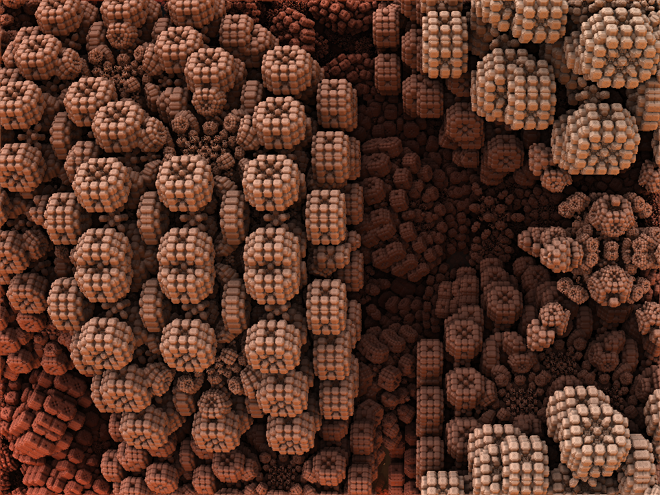 Fractal art.